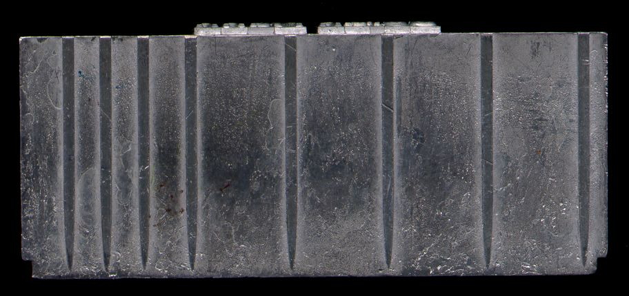 A lead type slug from a Linotype machine, as seen from the side.